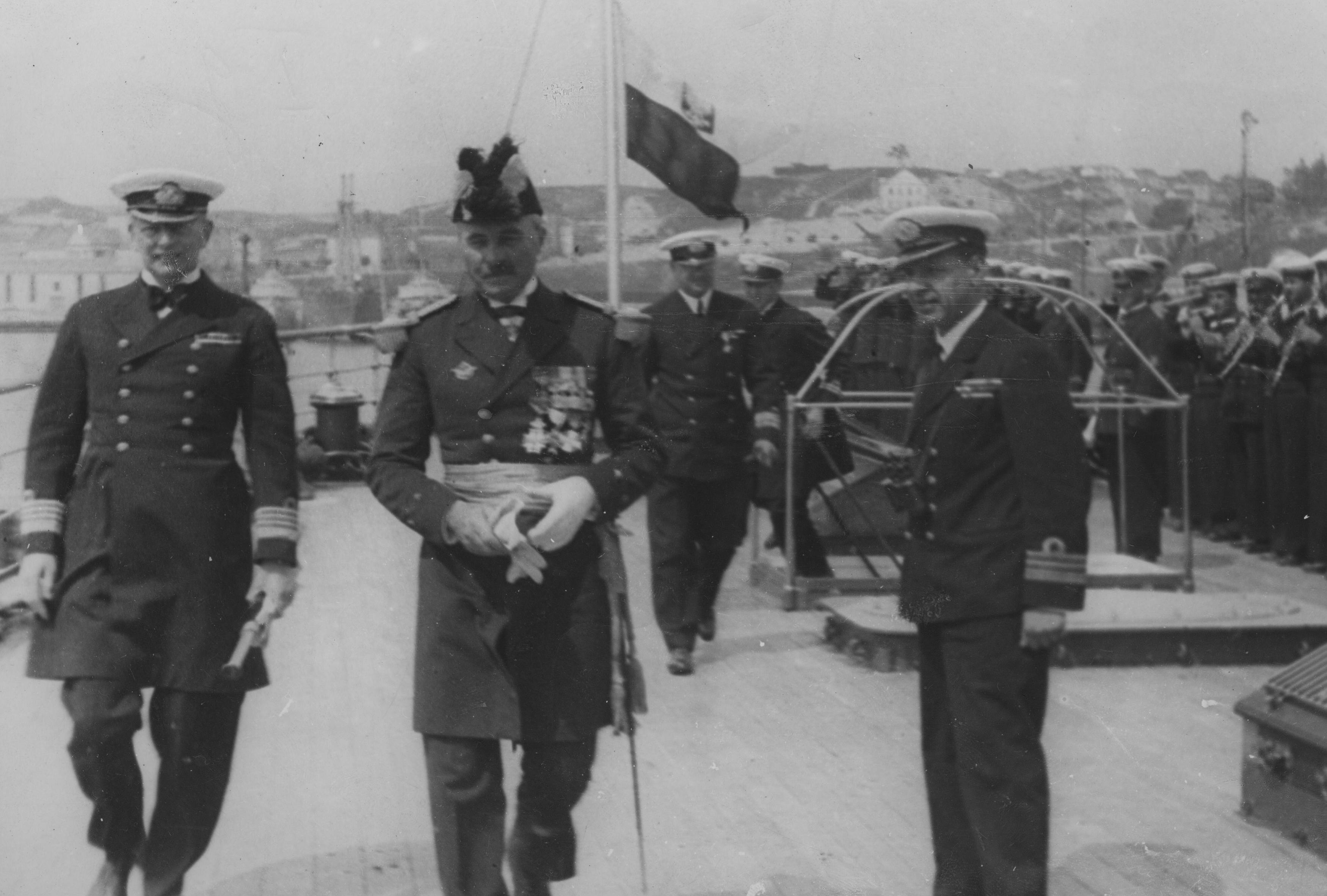 French admiral Jean de Laborde (centre) between Polish Navy officers Józef Unrug (left) and Eugeniusz Solski (right).